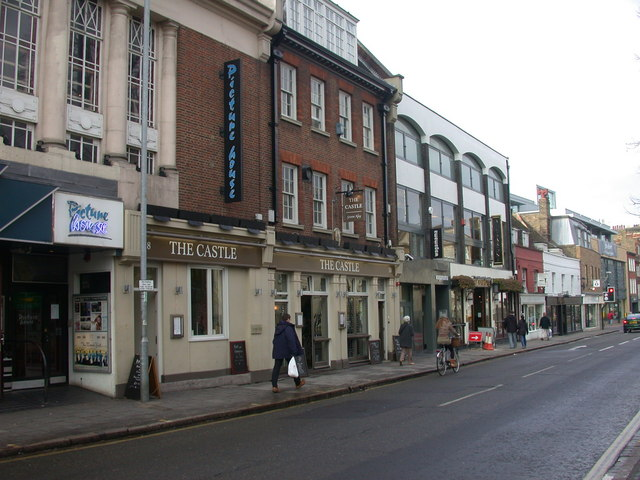 The Castle, St Andrews Street. A long established pub, it now finds itself sandwiched between the Wetherspoon's Regal (left of shot) and the All Bar One (by the traffic cones). The prime example of why Cambridge has introduced a cumulative alcohol impact zone policy for the city centre. There is another Castle pub, more logically positioned on Castle Street 492169